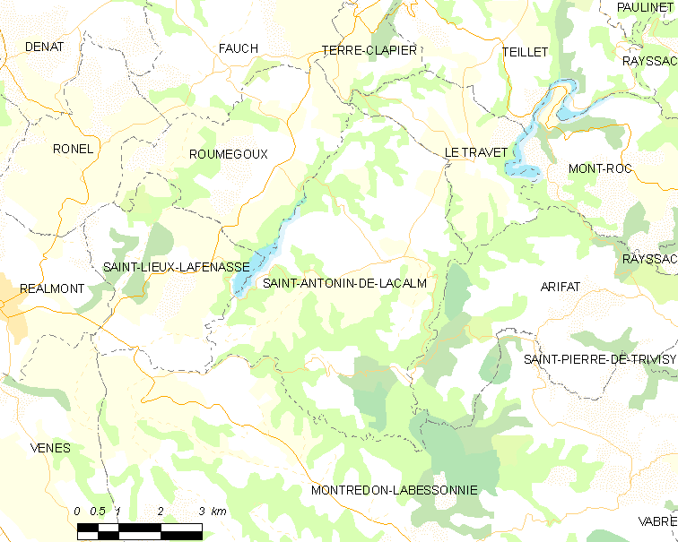 Map of French municipality Saint-Antonin-de-Lacalm